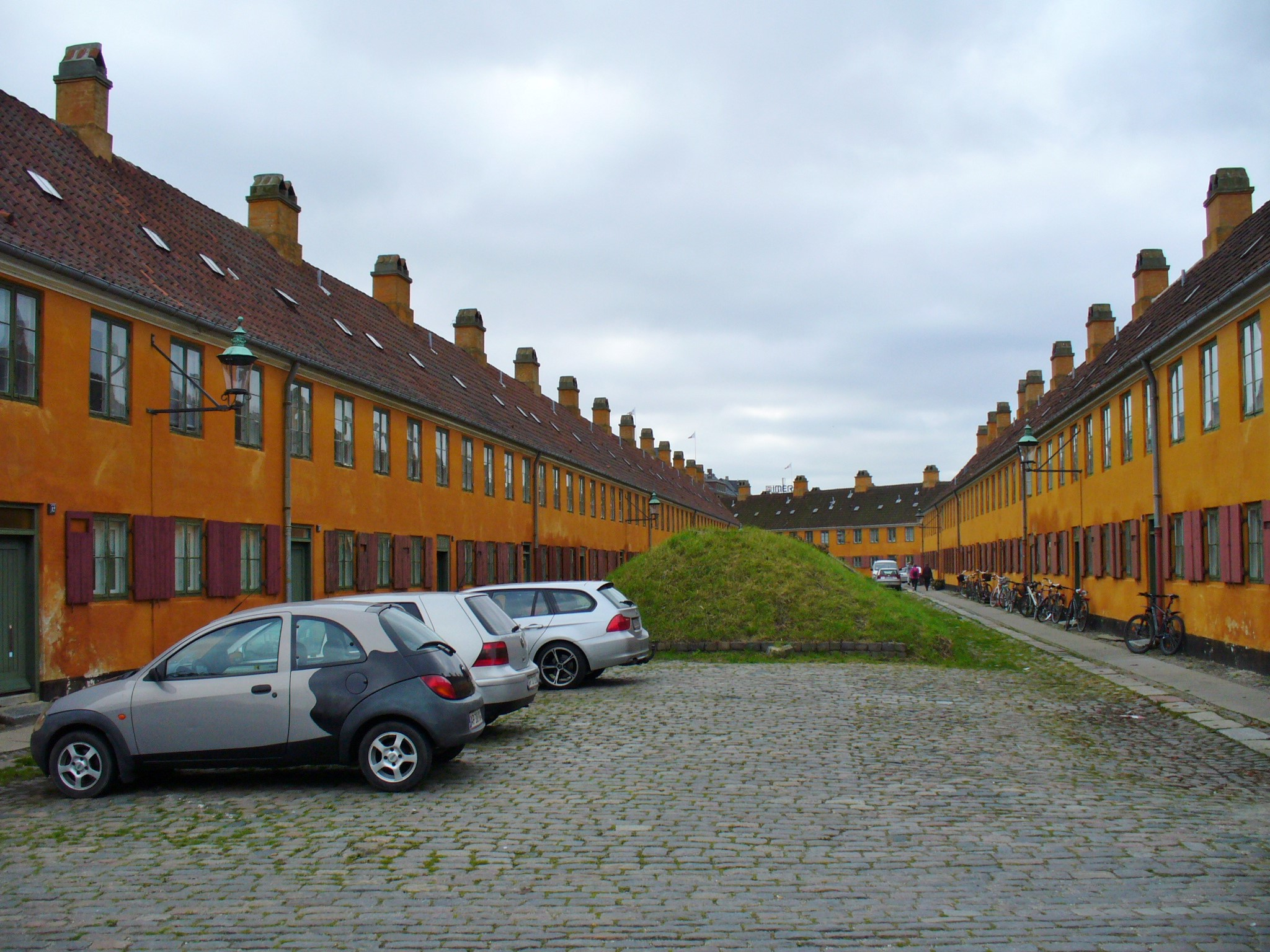 The street Svanegade in the area Nyboder in Copenhagen.